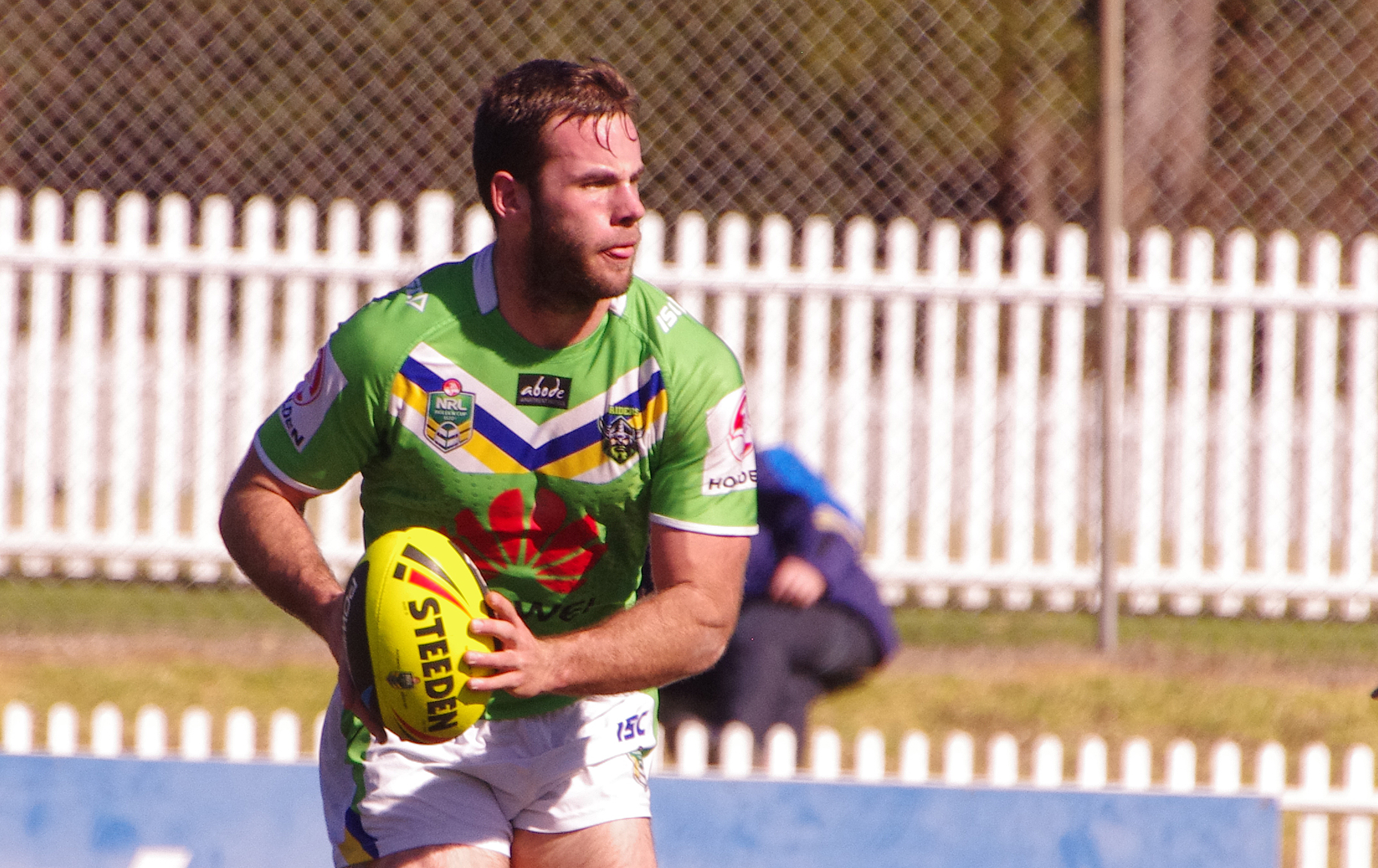 Matt Frawley